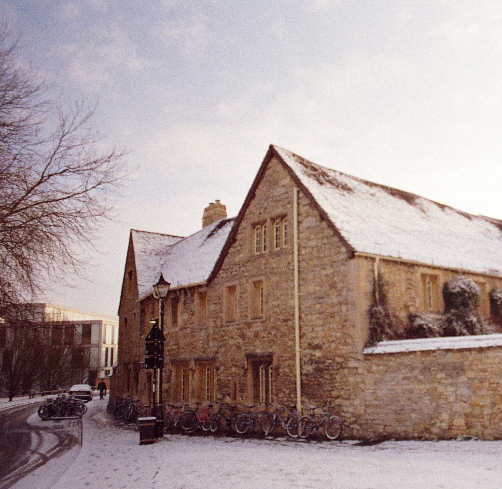 Holywell Manor under snow, Oxford.